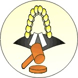 Law, Justice, Legislative, Legal force, Force of law, Lawsuit, Litigation